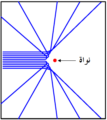 Scattering